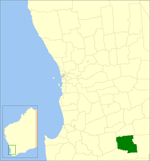 Description=Location of the Local Government Area in Western Australia